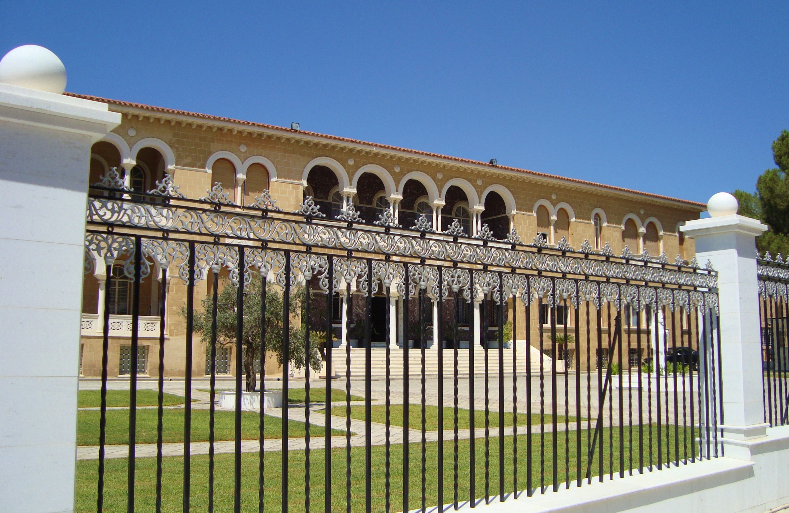 Archbishop’s Palace in Nicosia (Cyprus)